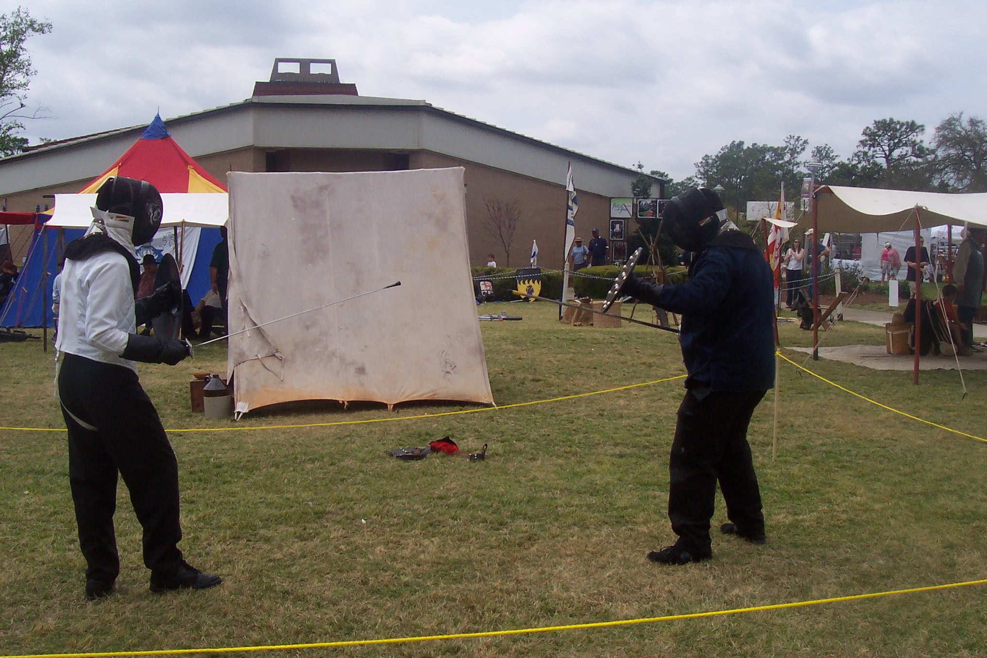 Example of Historical Fencing using the style of single sword and buckler, as demonstrated by Jason Chandler (left) and Jeremiah Pureber (right). University of West Florida's Renaissance Style Fencing Club: Salle McAfee.